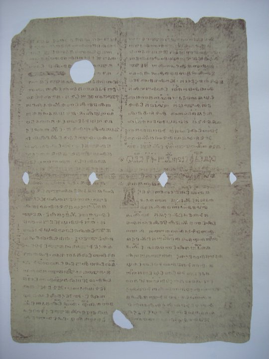 Rila Glagolithic Fragments